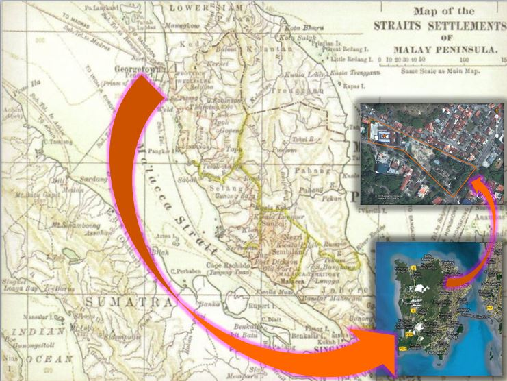 Map Locating Penang Nattukottai Chettiar Temple